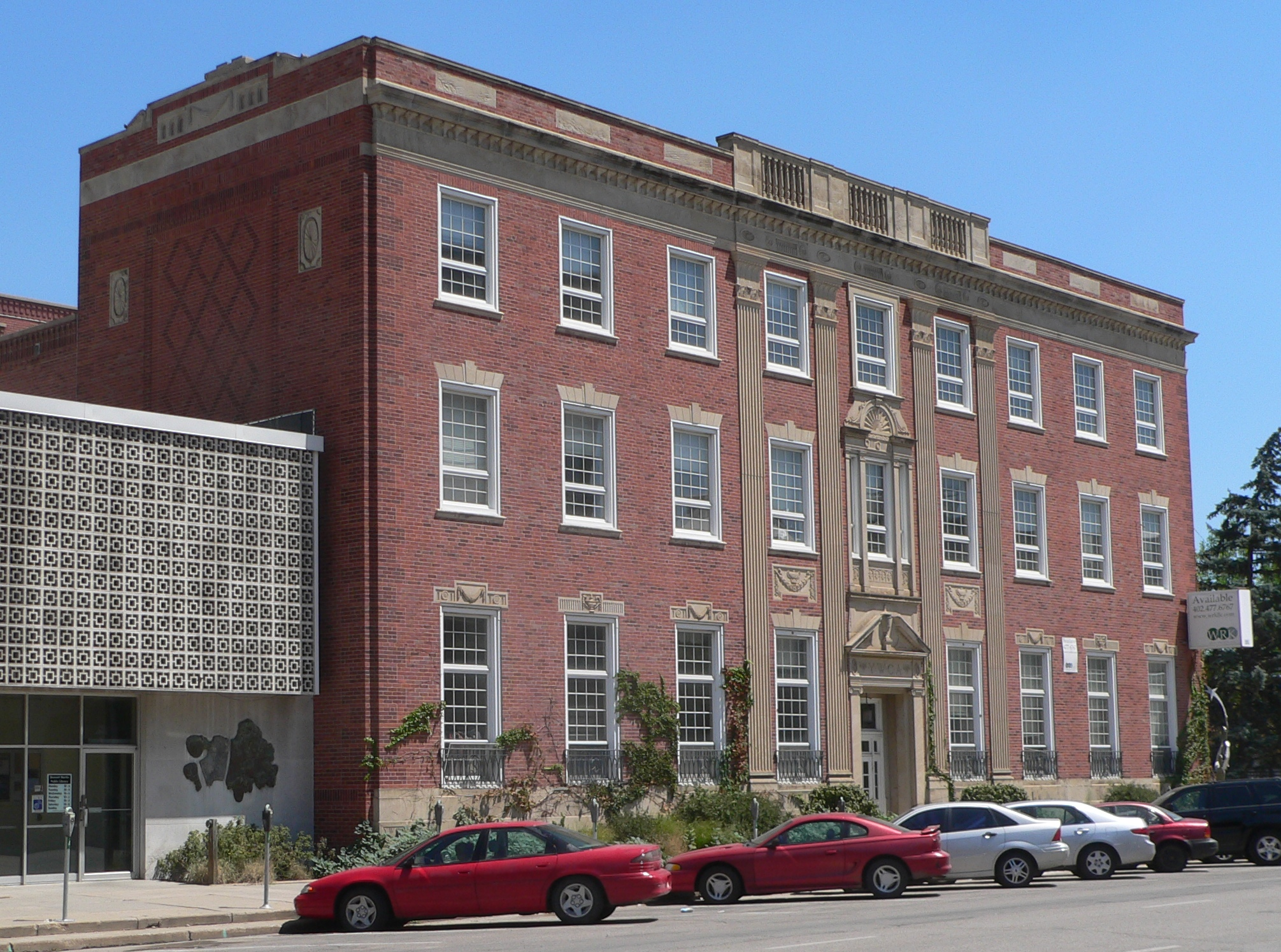 YWCA building, located at 1432 N Street (northwest corner of Centennial Mall and N) in Lincoln, Nebraska; seen from the southwest.